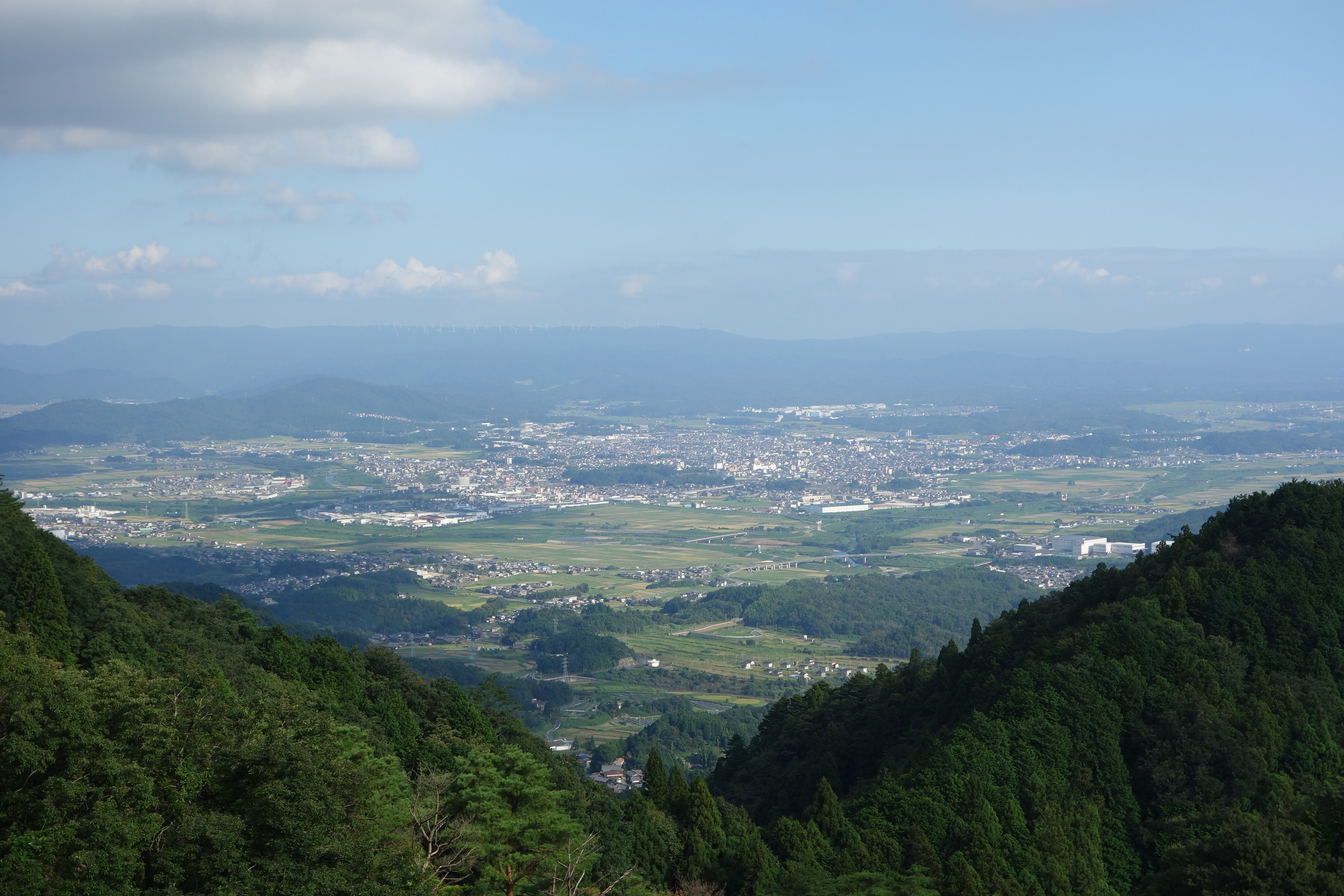 Scenery from Otogi pass, Iga, Mie, Japan